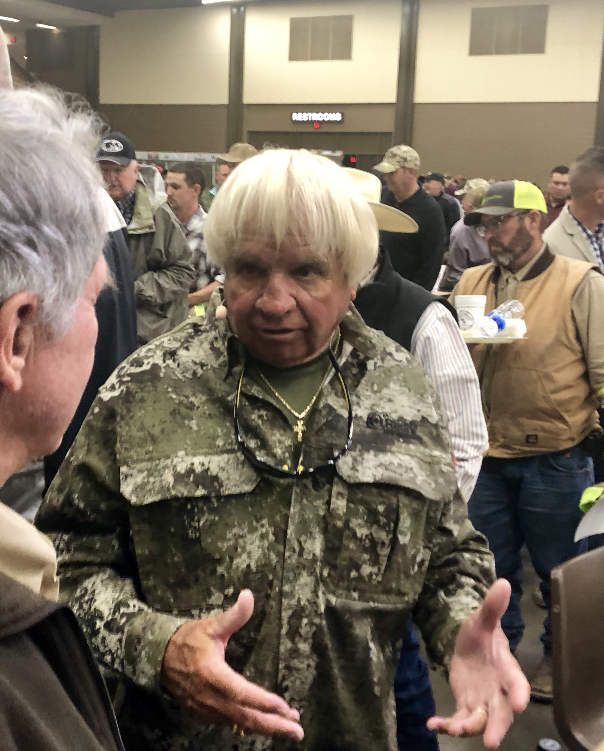 Jimmy Houston visiting with fans at the West Texas Beast Feast on 10 May 2019 in Lubbock, Texas.